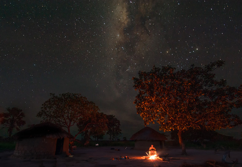 Anthony Opoka in Rwot Obillo, Uganda cover photo for the documentary "My Star in the Sky"